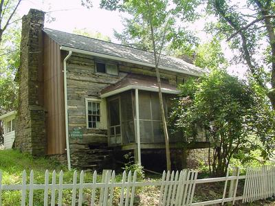 Scanlon Log House from Three Churches Hollow Road (CR 5/4).